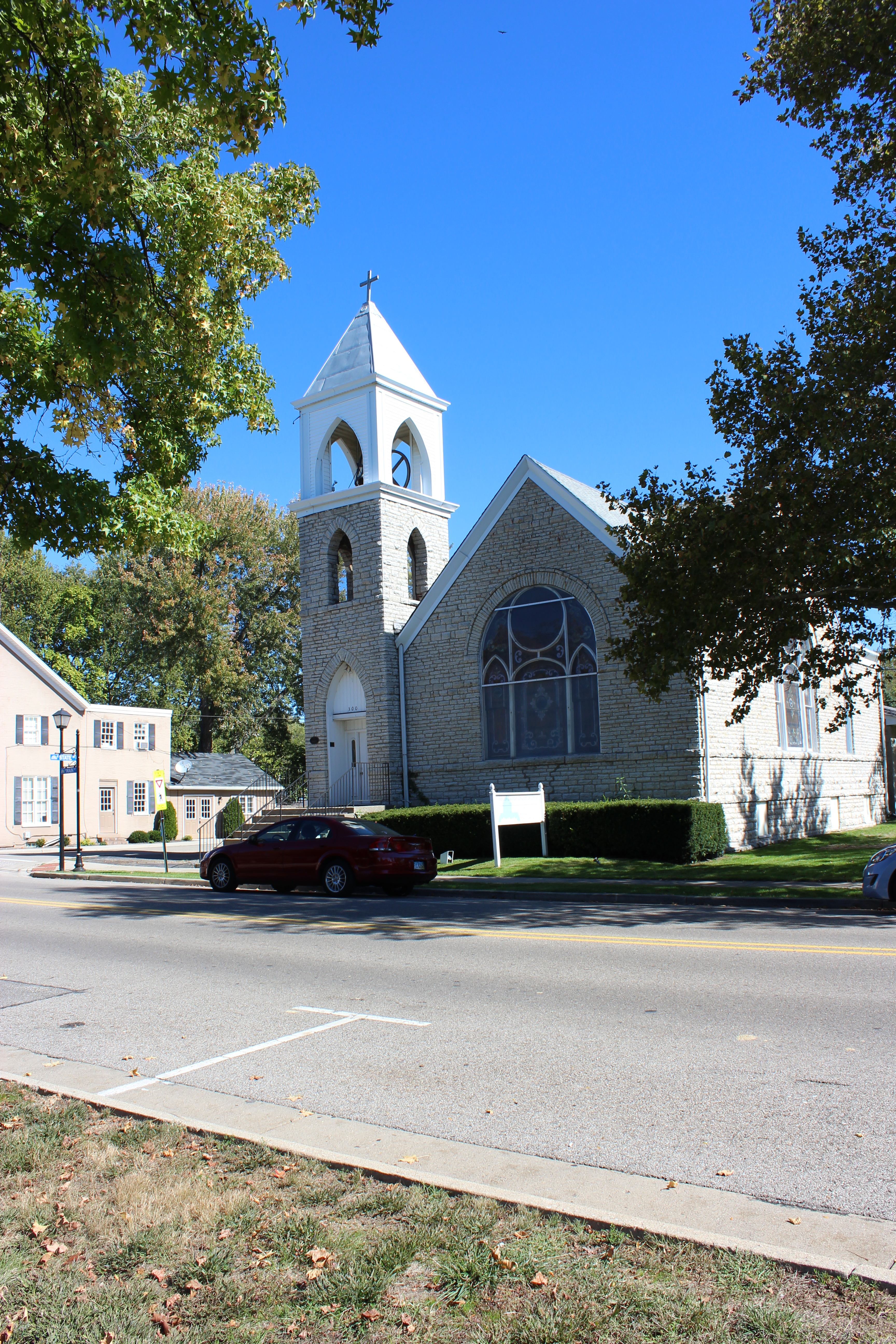 Springboro's "Old Stone Church," built in 1905 as the Springboro Universalist Church it is currently owned by South Dayton Church of Christ.